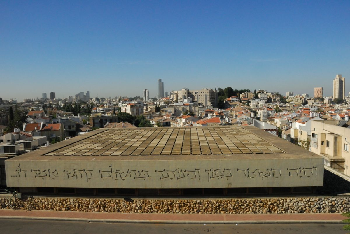 Architecture of Bnei Brak - Wikipedians tour This image was taken as part of the Elef Millim project trip to Bnei Brak, which was held on Friday, 3rd December 2010. To view all images uploaded as part of the Elef Millim Project General view of Bnei Brak from Ponevezh Yeshiva